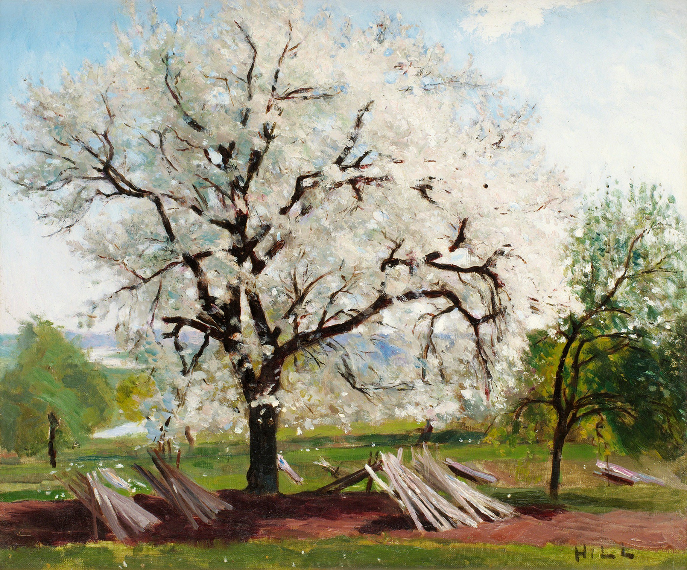 HILL Carl Fredrik The Flowering Fruit-Tree 1877 Oil on canvas, 50 x 60 cm